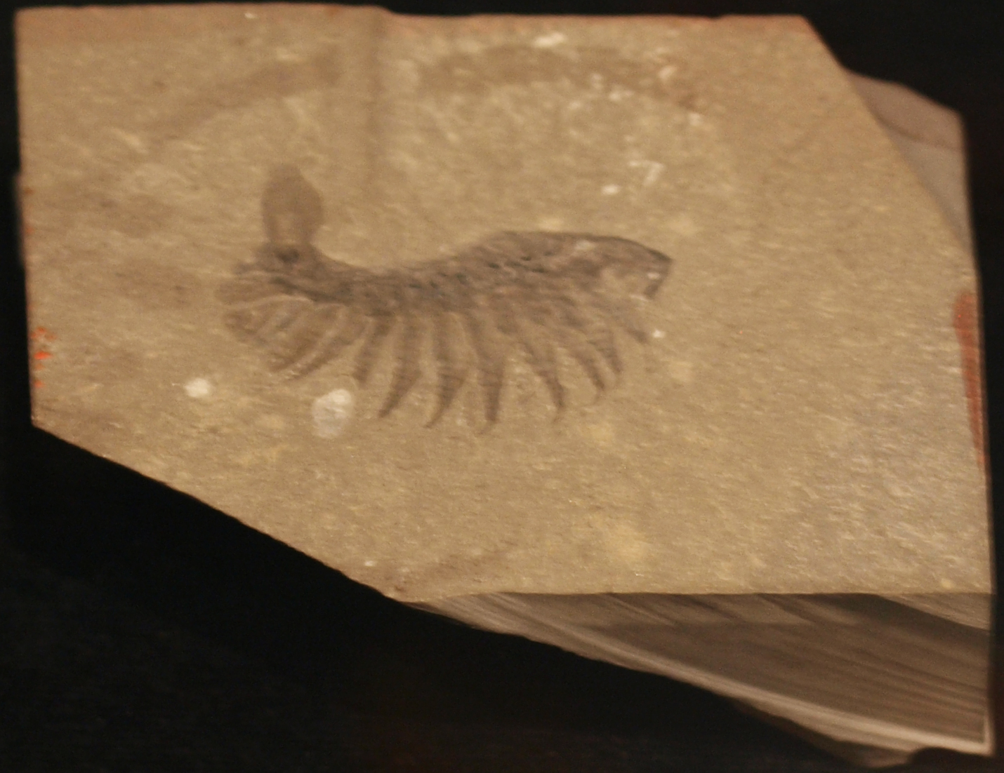 Specimen of Alalcomenaeus Cambricus on display in the Royal Ontario Museum, Toronto.